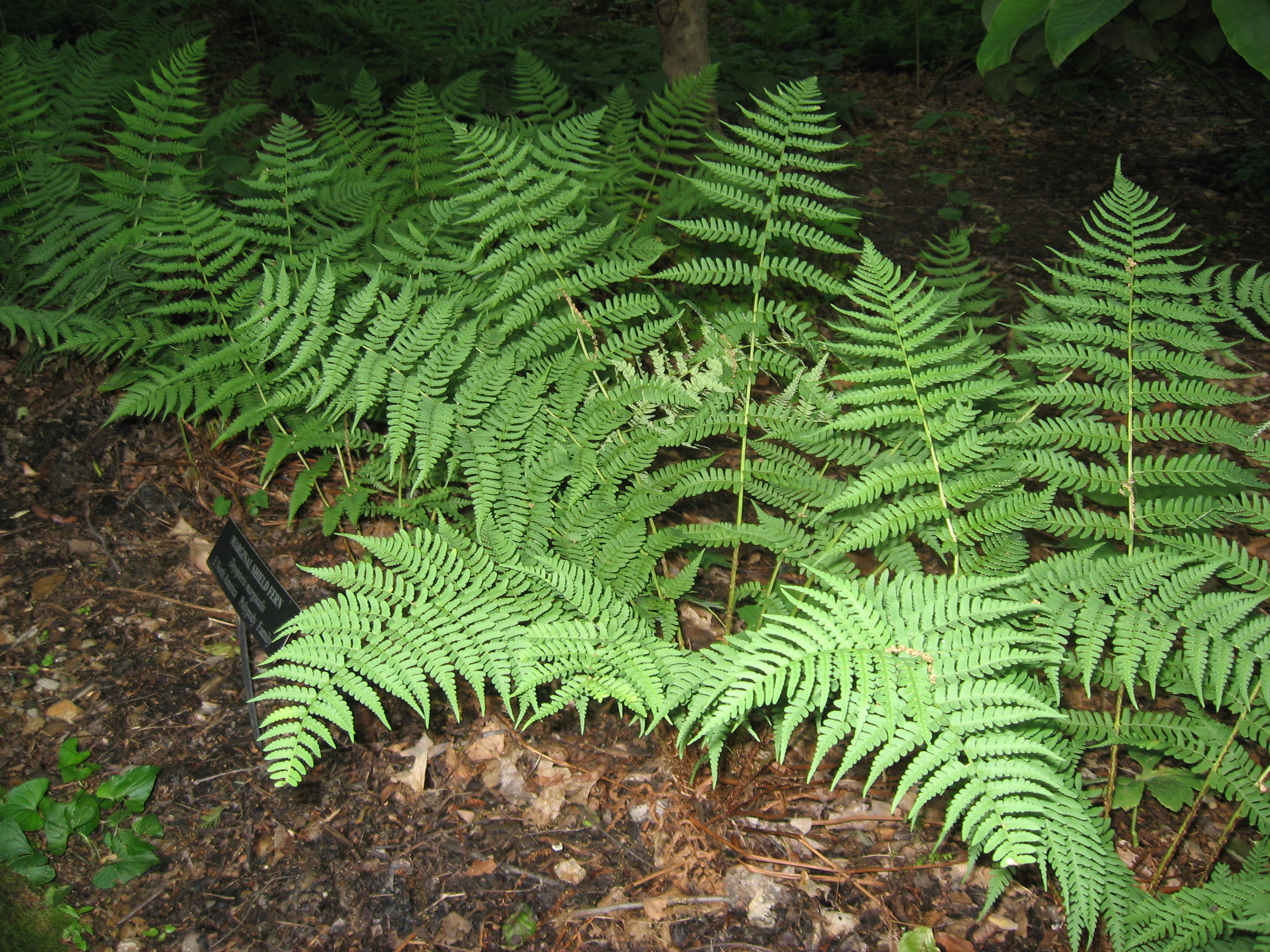 A picture of Dryopteris marginalis.